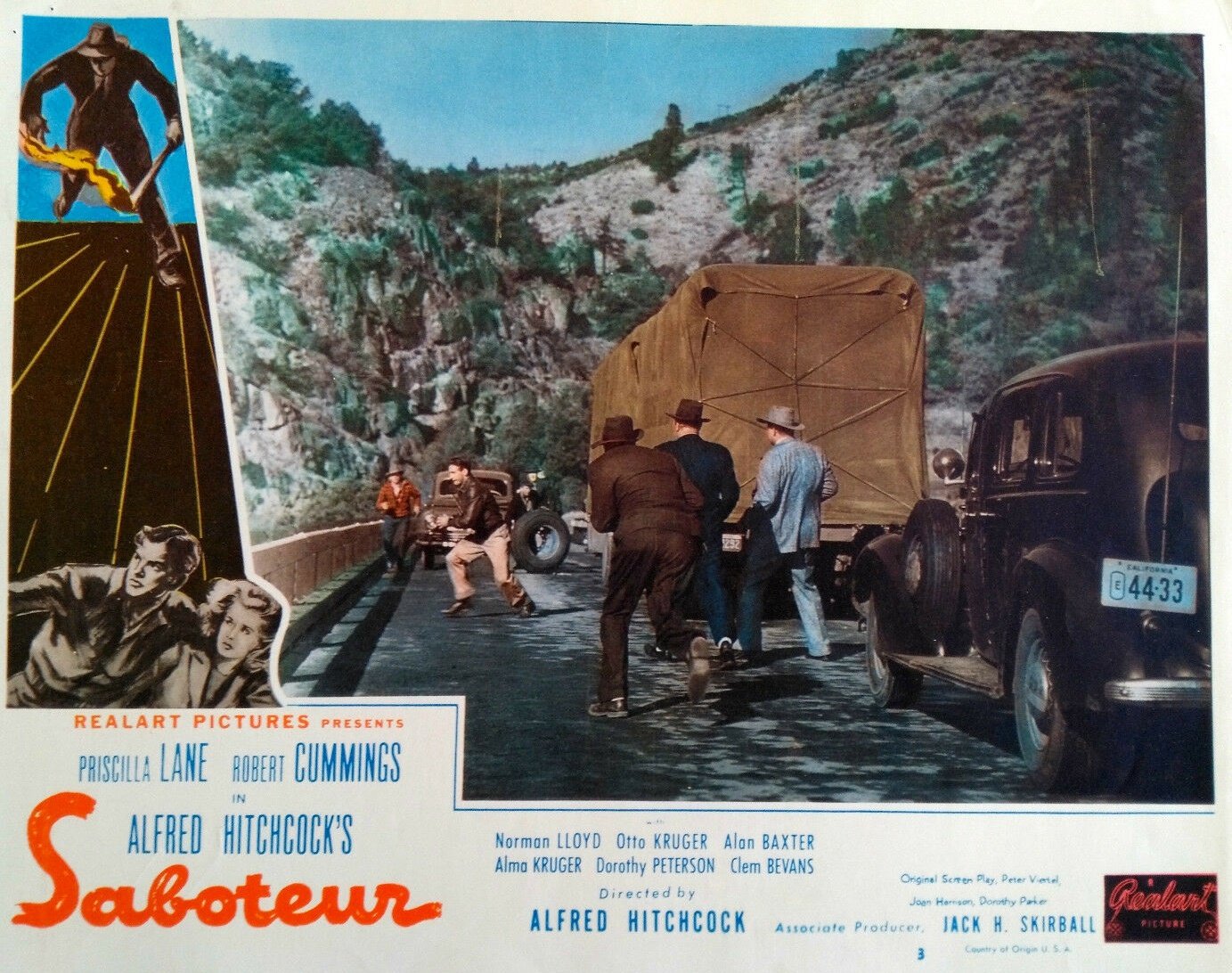 Lobby card for the American noir spy thriller film Saboteur (1942)